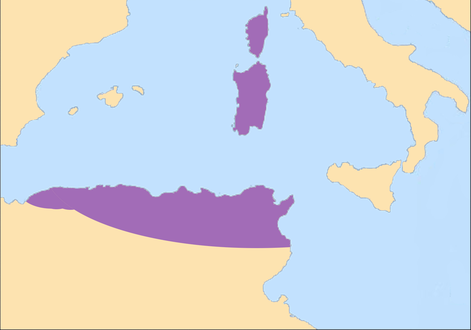 Summary This is a map of the Kingdom of Vandals & Alans from the French Wikipedia created by Utilisateur:Yugiz circa 550.